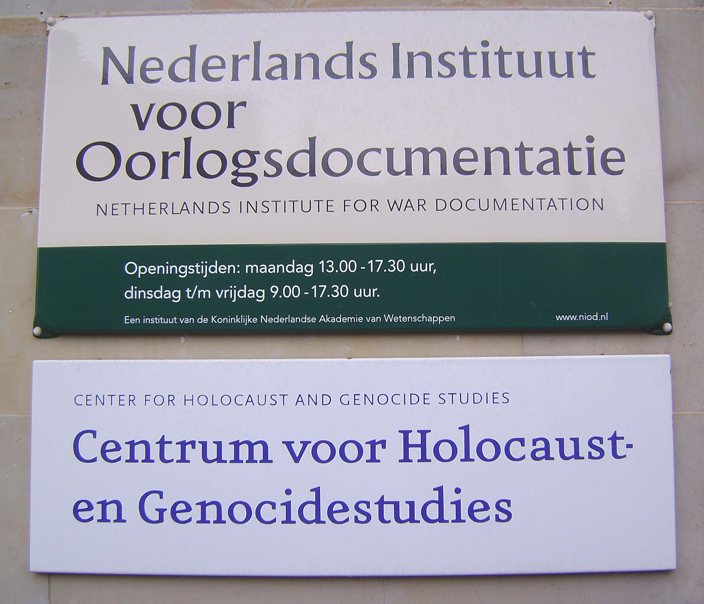 Name plate at the entrance of the Dutch Institute for War Documentation.